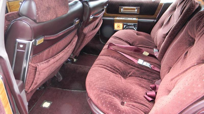 This is a picture of a vehicle (name of it is on the file name).